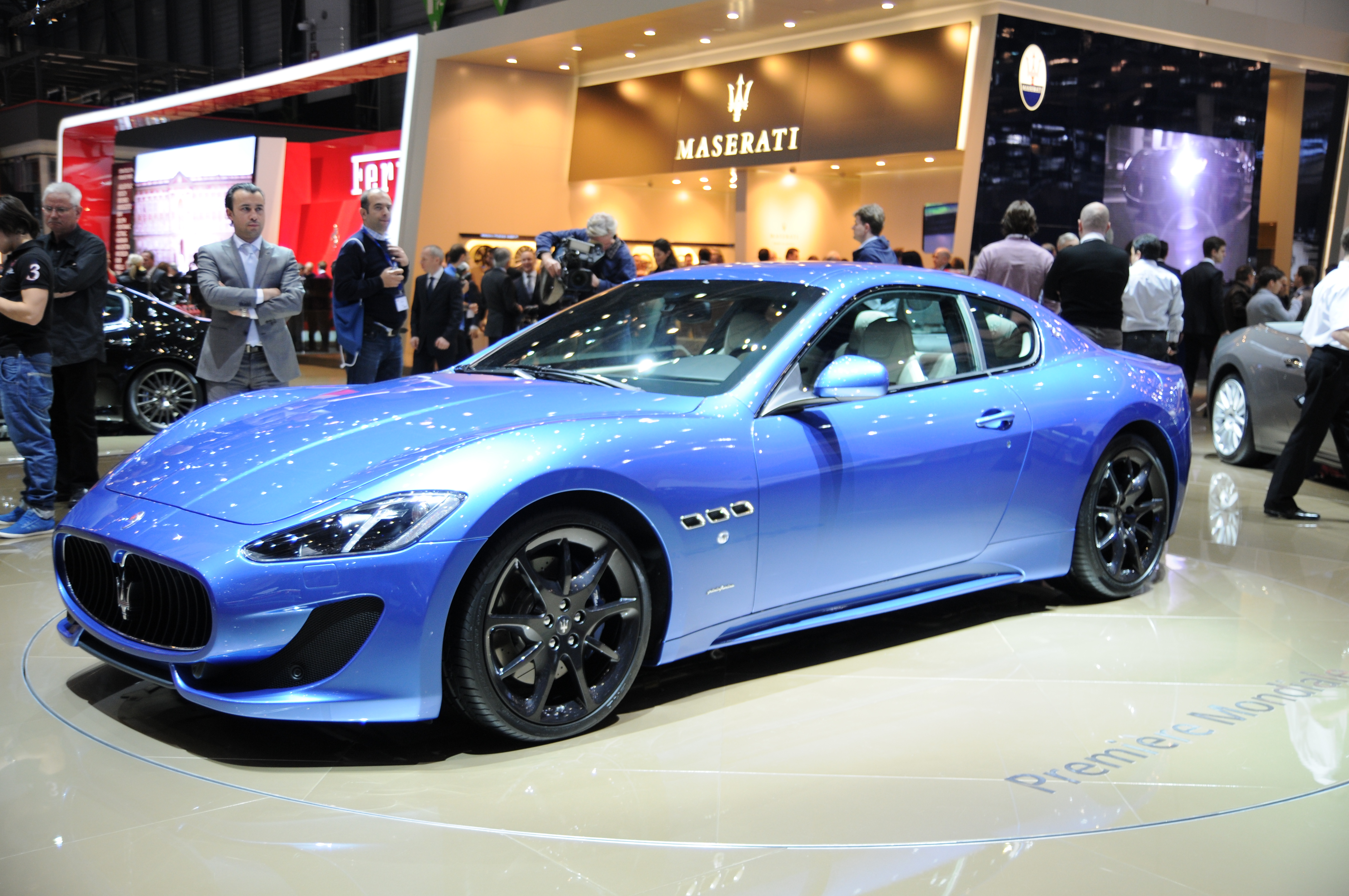 Geneva Motor Show 2012 (photos taken on the second press day)